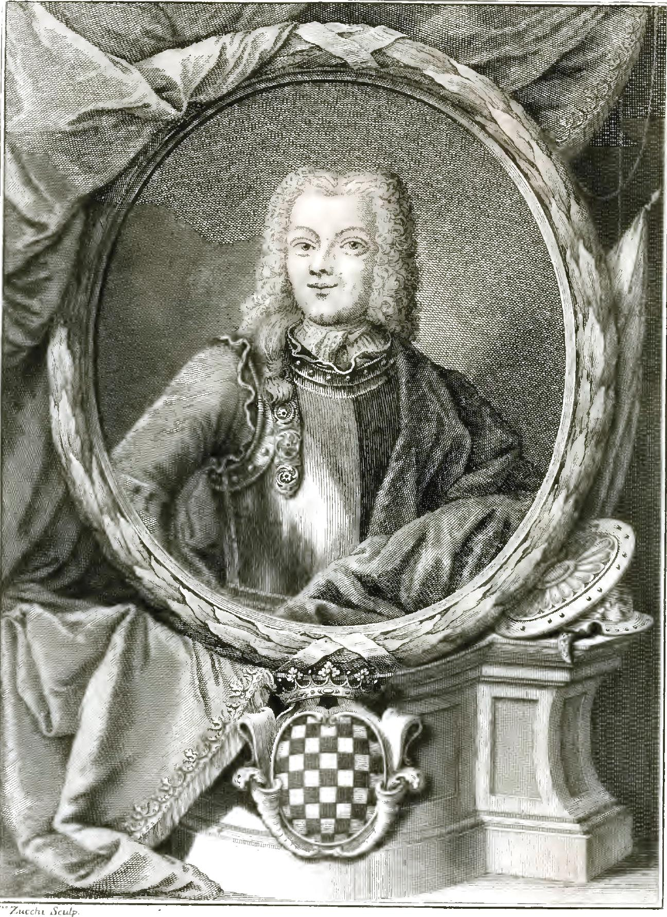 Francesco Zucchi, commonly F. Zucchi